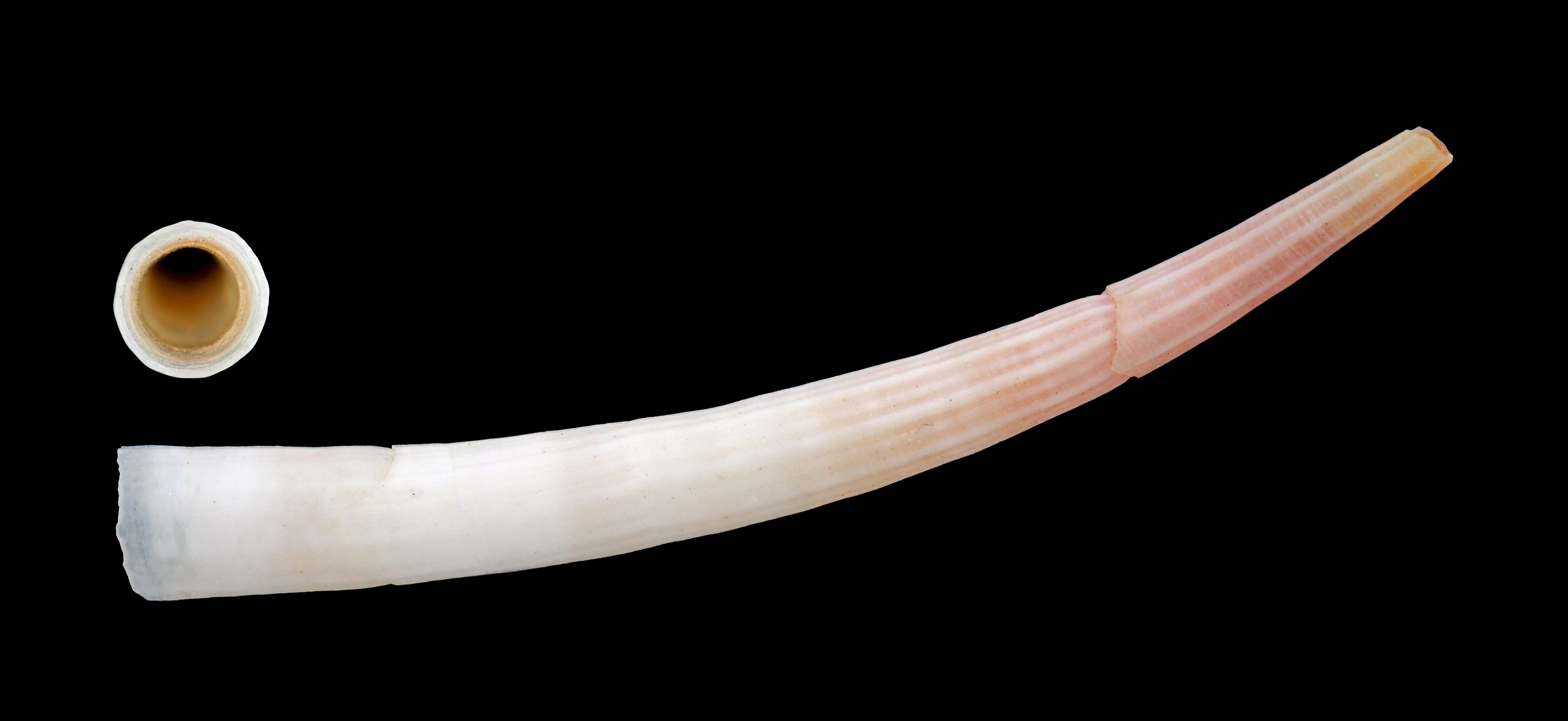 Length 3.9 cm; Originating from Port Leucate, France; Shell of own collection, therefore not geocoded. Lateral and frontal view.